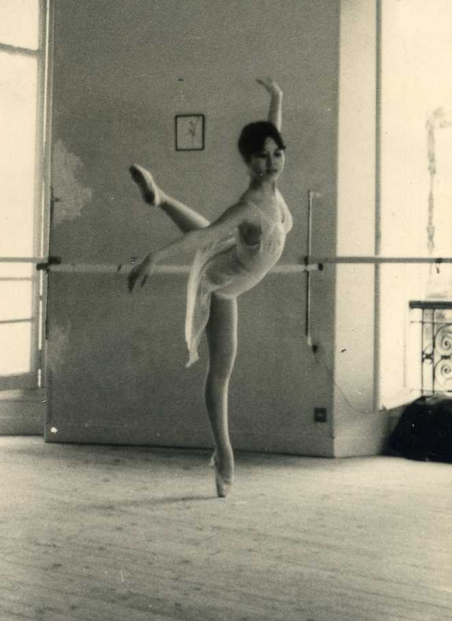 Yoko Honma practice at rehearsal room of "Ballets de Monte Carlo" in Monaco